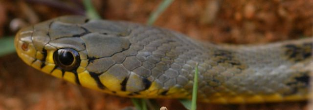 Amphiesma stolata, head, Bannerghatta, India